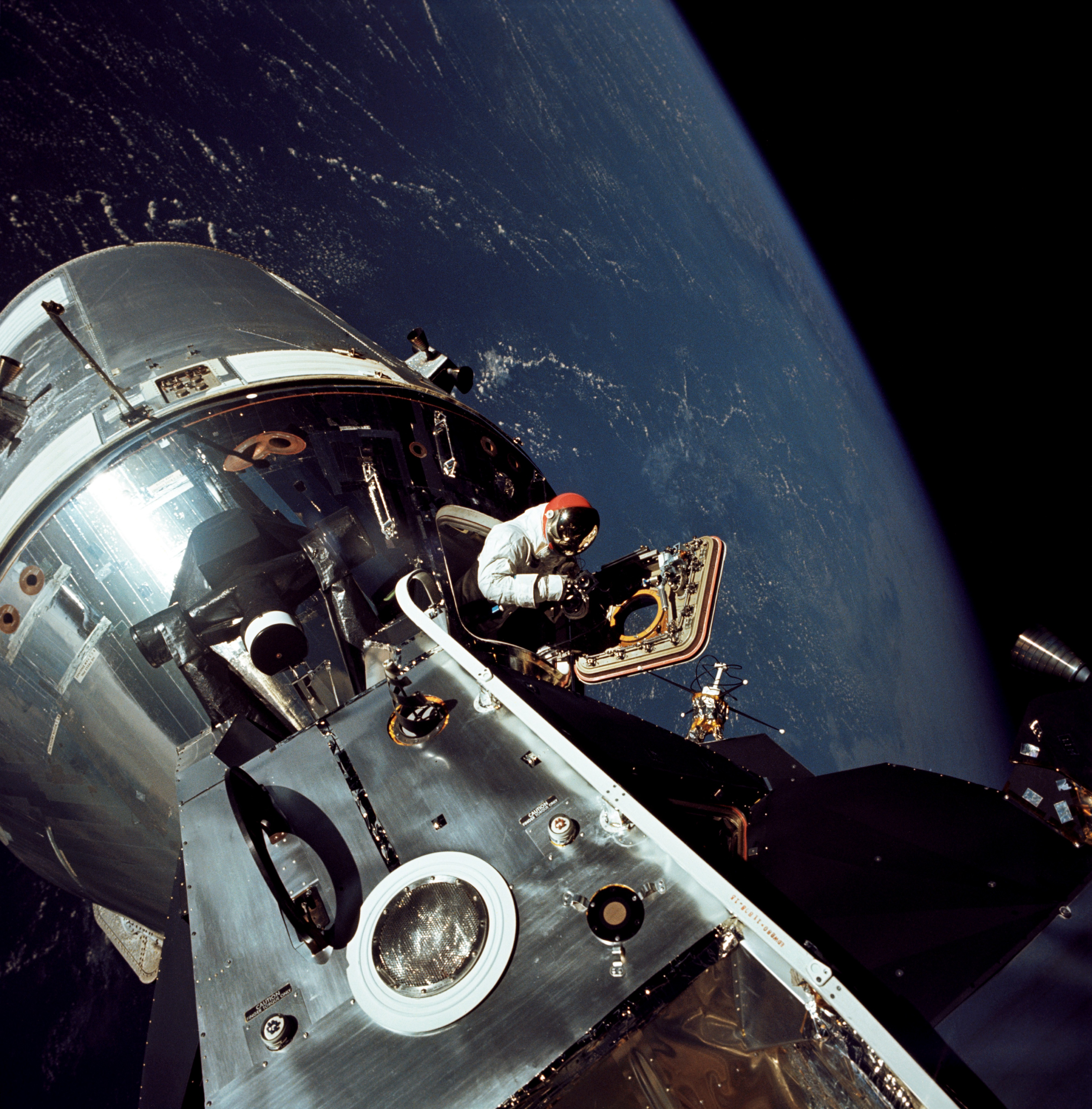 This image, taken on March 6, 1969, shows the Apollo 9 Command and Service Modules docked with the Lunar Module. Apollo 9 astronaut Dave Scott stands in the open hatch of the Command Module, nicknamed "Gumdrop," docked to the Lunar Module "Spider" in Earth orbit. His crewmate Rusty Schweickart, lunar module pilot, took this photograph from the porch of the lunar module. Inside the lunar module was Apollo 9 commander Jim McDivitt. The crew tested the orbital rendezvous and docking procedures that made the lunar landings possible. Image Credit: NASA